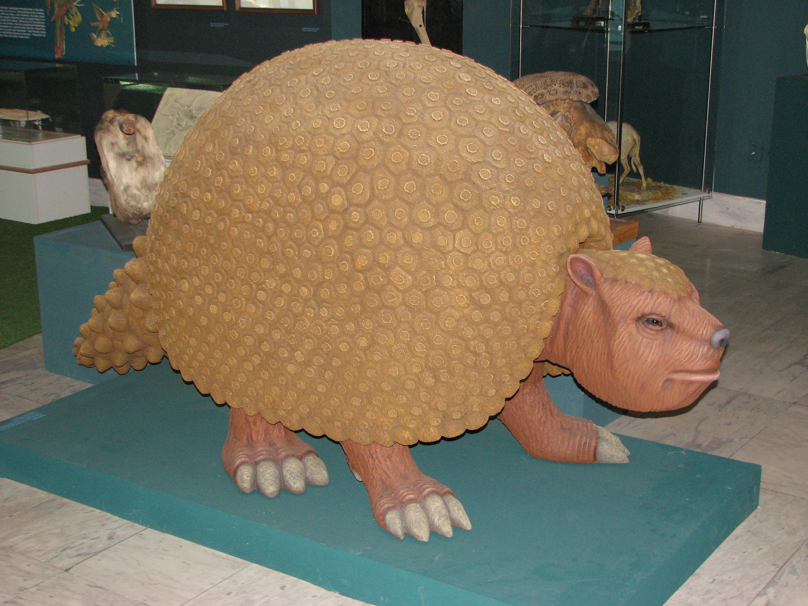 Lifesize model of Glyptodon displayed at an exhibition of Charles Darwin in the Brno museum Anthropos.